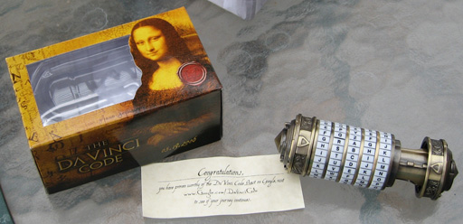 I took the picture myself of my Cryptex, Cryptex box and paper roll inside.